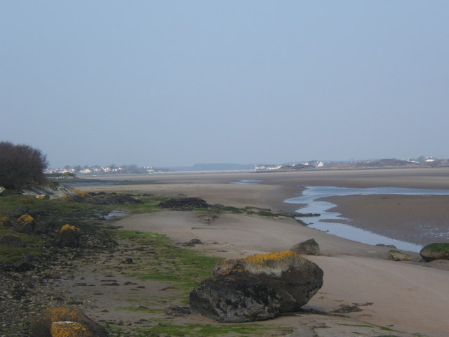 Upper Cymyran Straits, Four Mile Bridge in the distance.